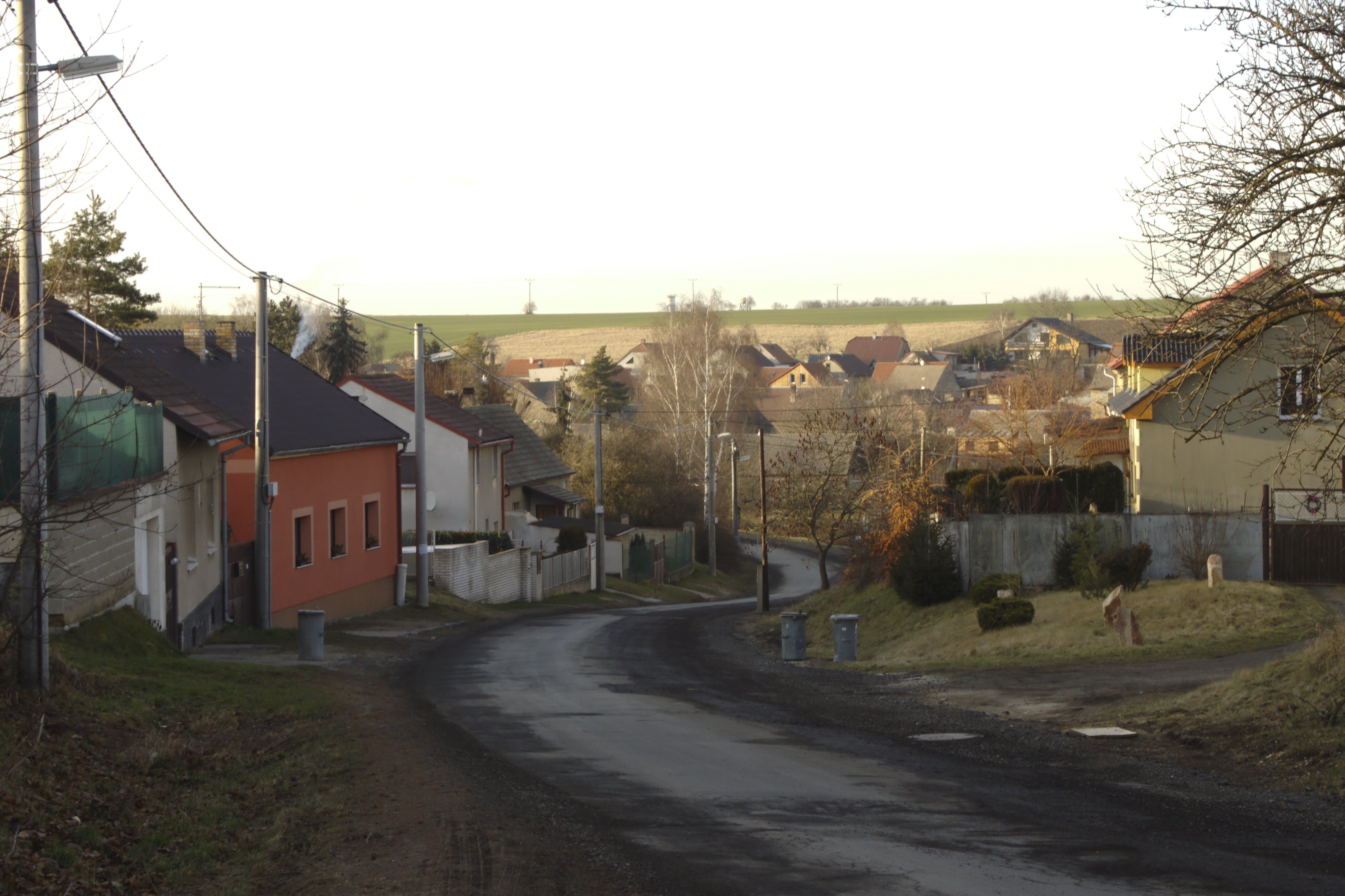 The village of Kvíc, part of the town of Slaný on it's western edge. Central Bohemian Region, CZ